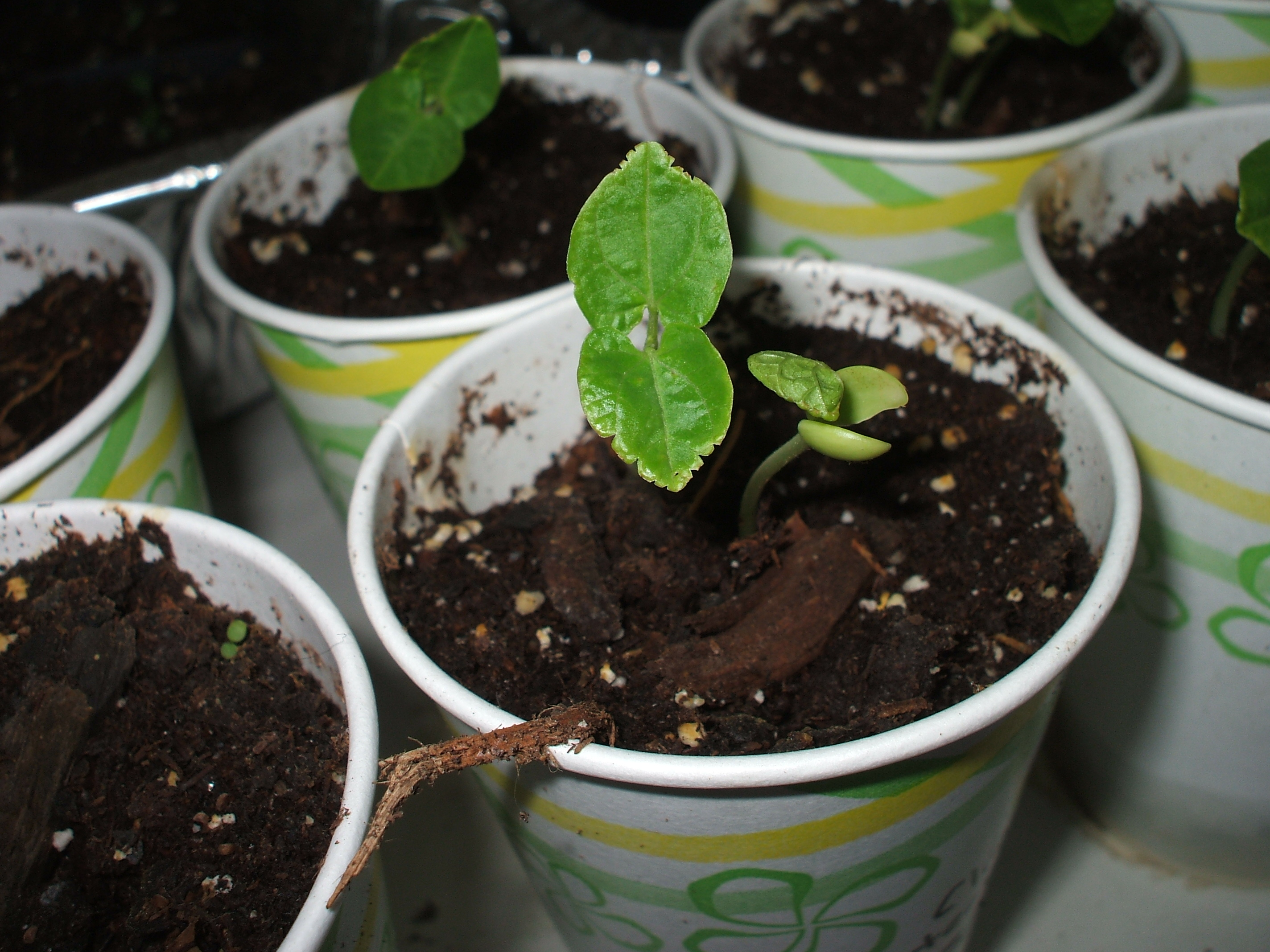 The genus Clitoria - Specifically, Clitoria ternatea. The Butterfly Pea. The epithet ternatea is interesting. From Dave's Garden Botanary: "Terntea: Name used by Linnaeus, referring to the Moluccan Isalnd of Ternate, where a specimen was collected; it was subsequently named Flos clitoridis Ternatensibus by Breyne in 1678